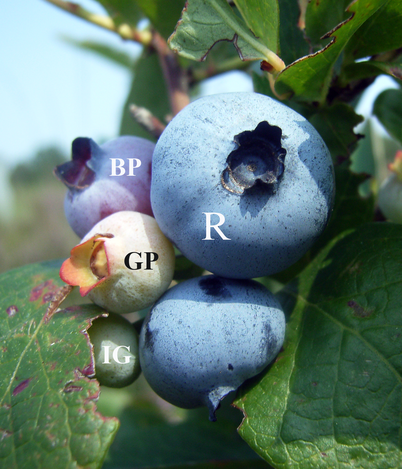 Vaccinium cf. corymbosum in a raised bog in Lower Saxony (Germany)